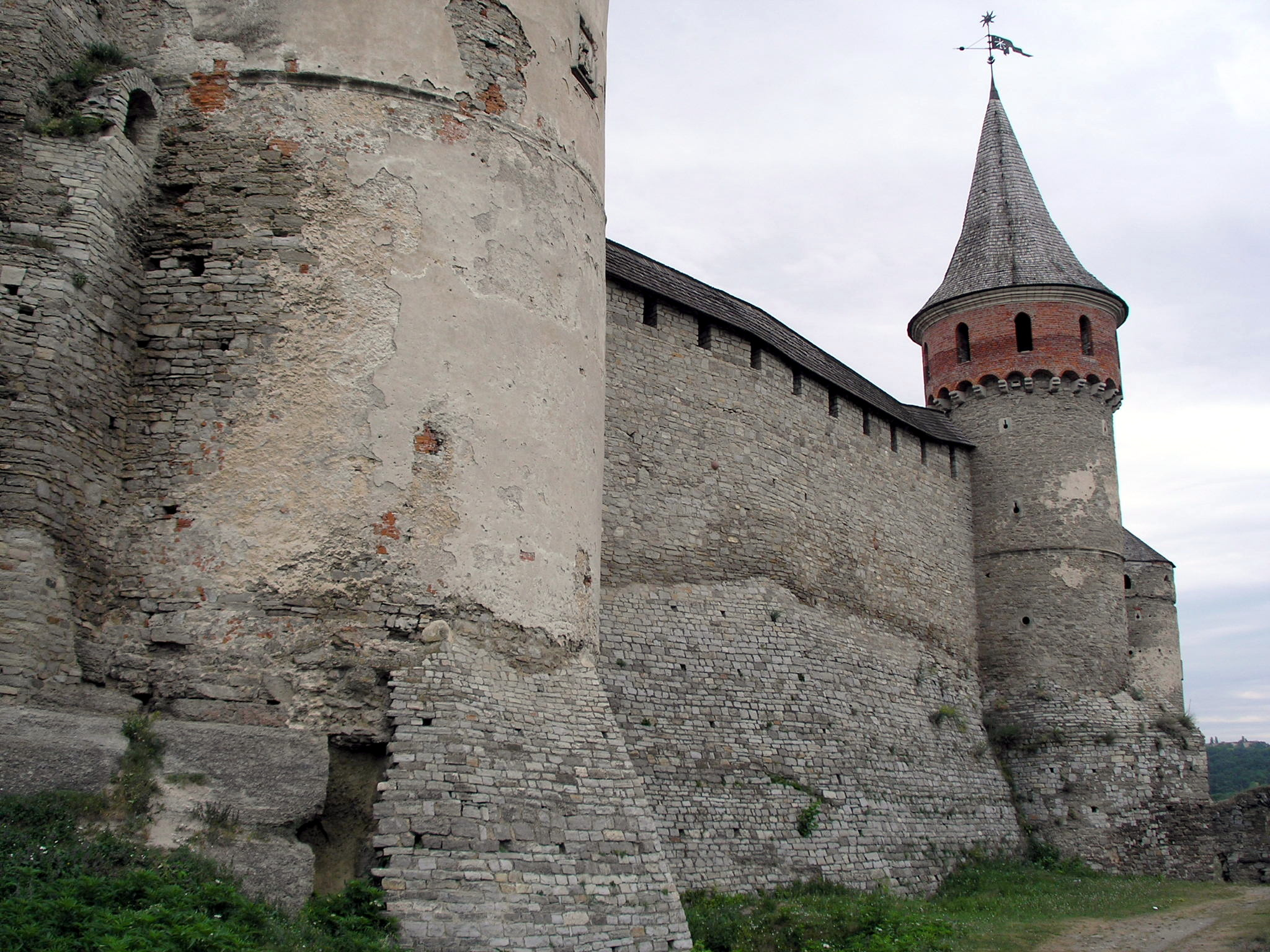 The Kamianets-Podilskyi Castle in Kamianets-Podilskyi, Ukraine